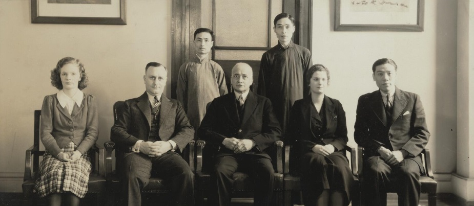 Australian Trade Commission staff, Shanghai, May 1937. L-R: "Miss Filman, A. L. Nutt Assitant Commissioner, V. G. Bowden Commissioner, Miss Watling, Mr Zian. Office Boy, Coolie."